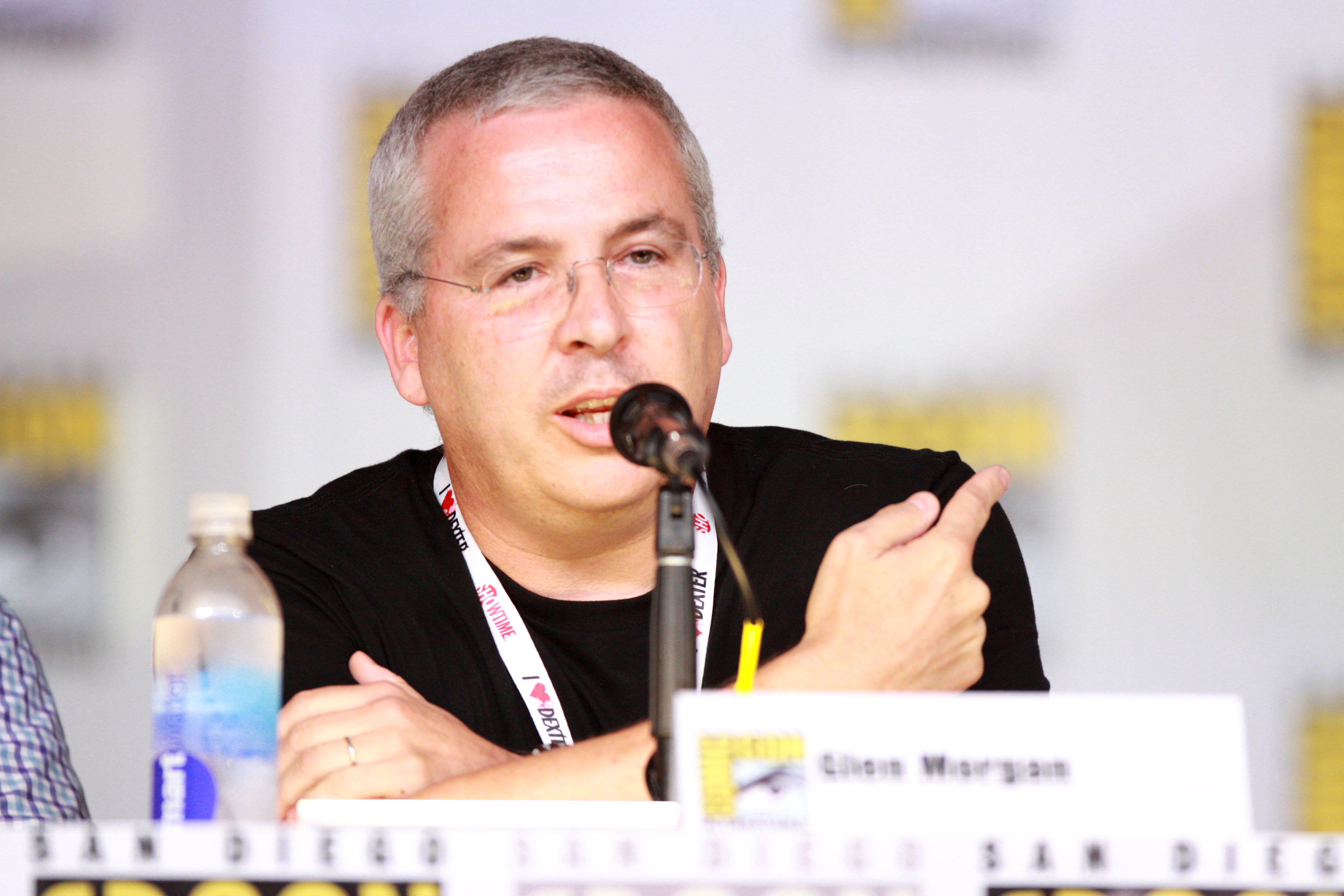 Glen Moran speaking at the 2013 San Diego Comic Con International, for "The X-Files" 20th Anniversary panel, at the San Diego Convention Center in San Diego, California.